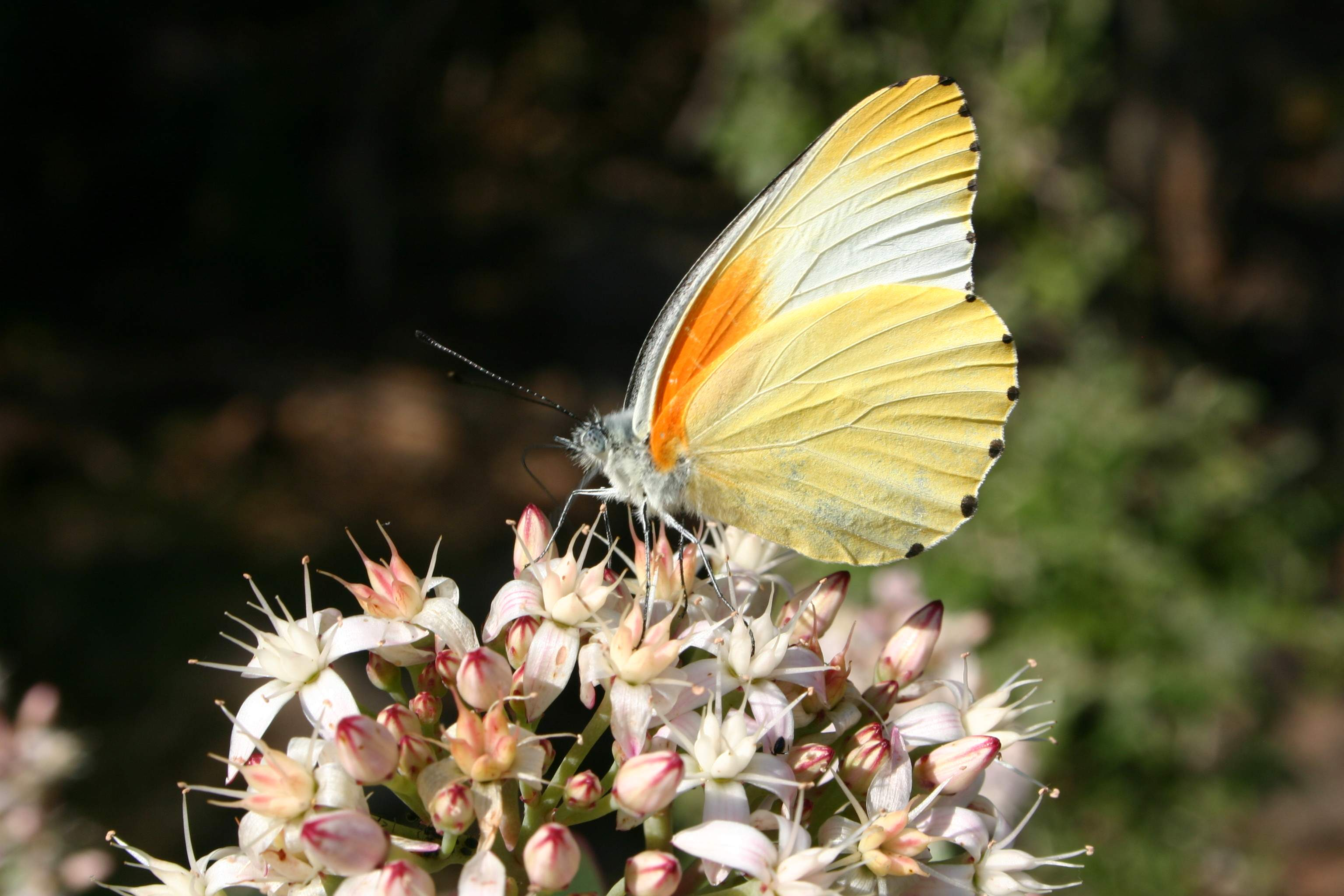 Mylothris agathina (Cramer 1779), Magaliesberg, South Africa on Crassula ovata